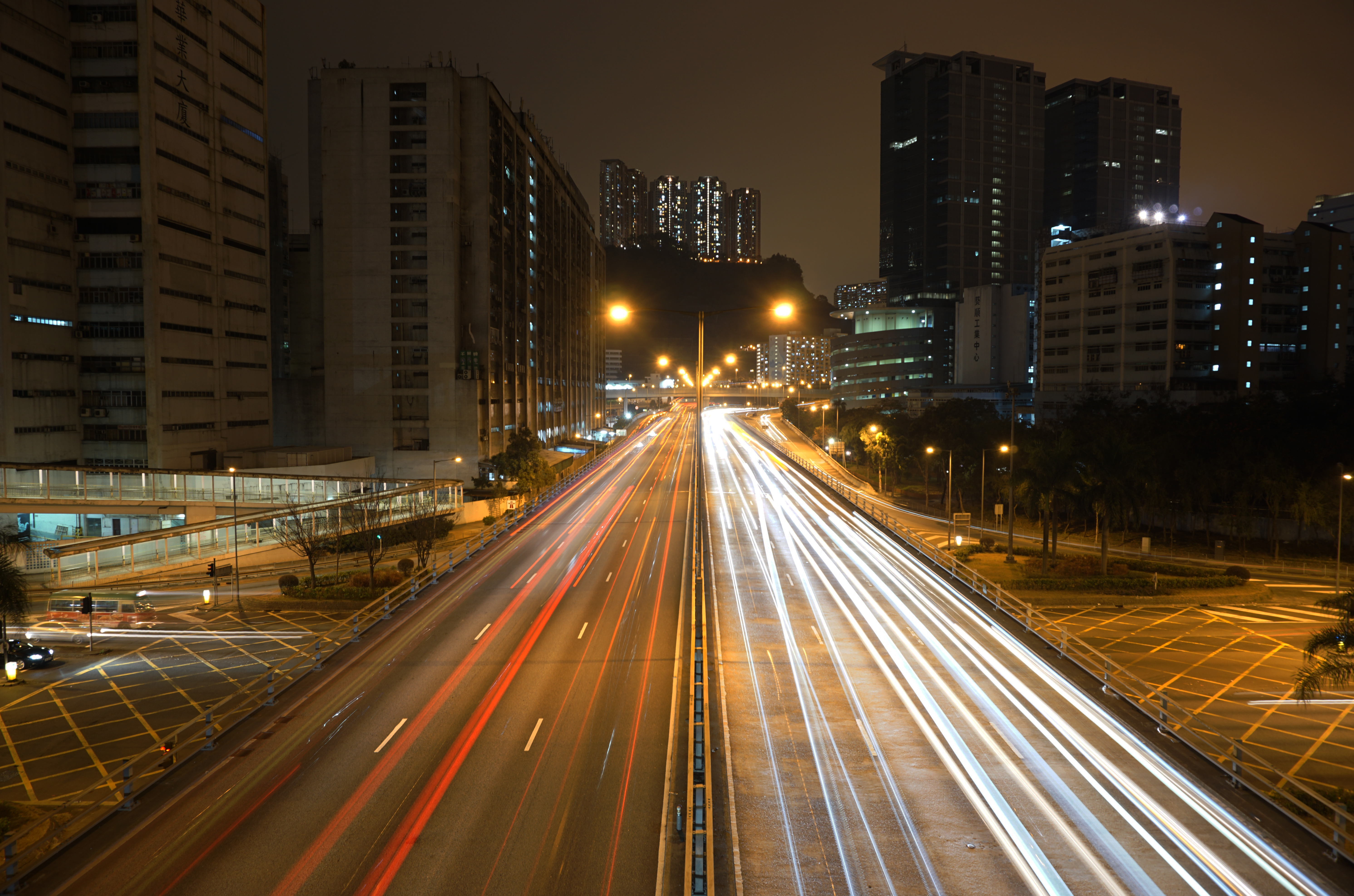 Tsuen Wan Road in Tsuen Wan, Hong Kong.